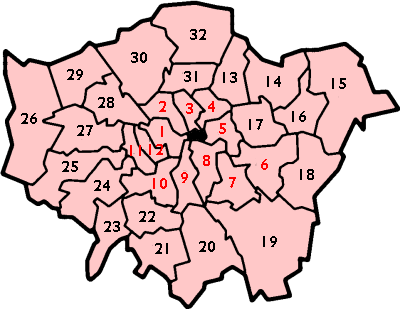 Map of the 32 London boroughs as numbered by schedule 1 of the London Government Act 1963.